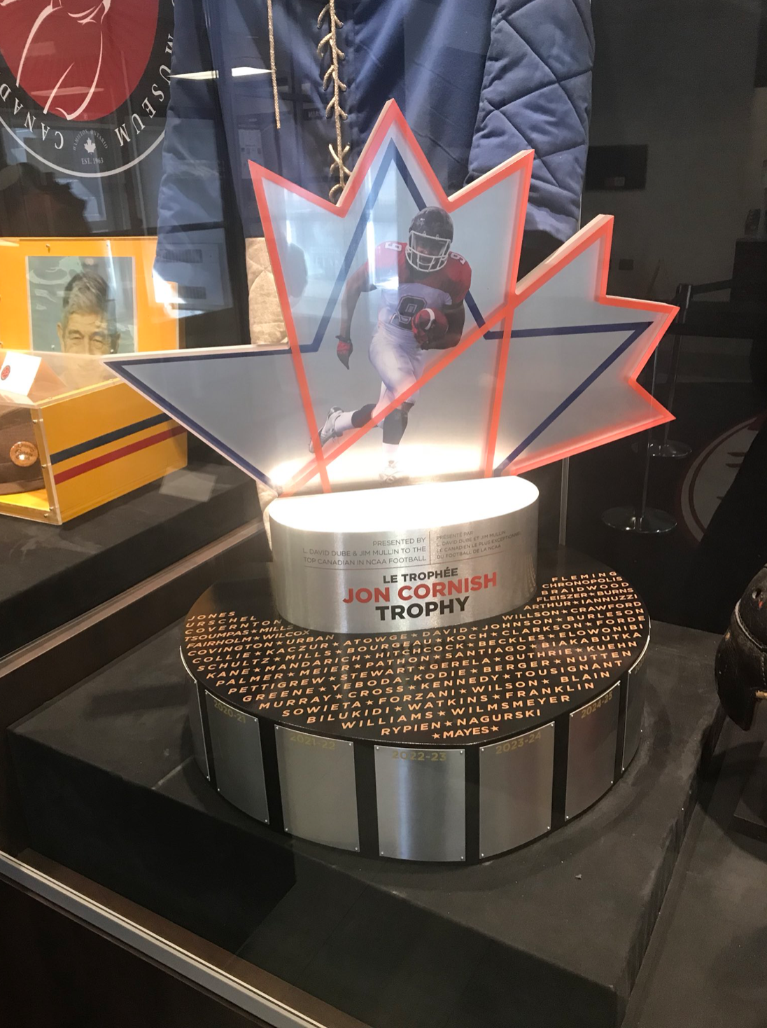 A photo of the Cornish Trophy at the Canadian Football Hall of Fame displayed at Gate 3 at Tim Horton's Field in Hamilton, Ontario. It is awarded annually to the top Canadian in NCAA football.